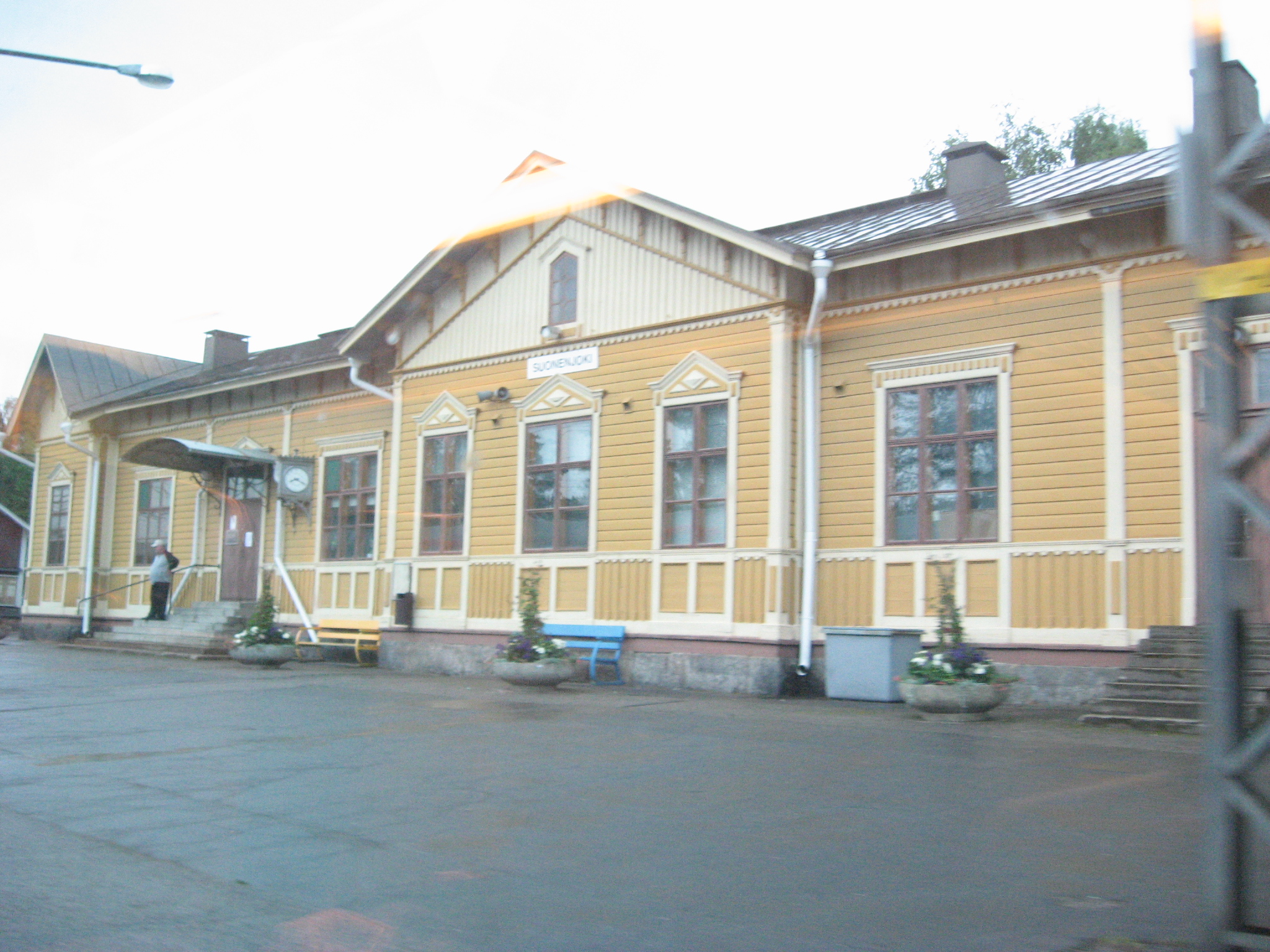 Railway station building of Suonenjoki, picture taken from InterCity 77.